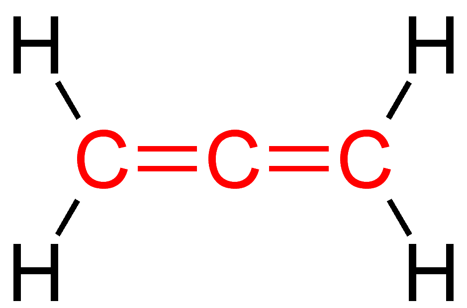 Cumulated_Diene